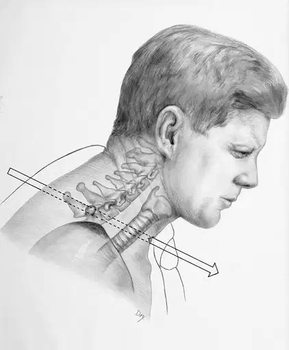 Drawing of a cross-section of President Kennedy's neck and chest, showing the trajectory of the projectile from back to throat. In one aspect, the drawing is inaccurate: The House Select Committee on Assassinations reported that President Kennedy's head was not significantly tilted downward at the time of the assassination (2 HSCA 174, 176), although his back and shoulders were hunched forward 11 to 18 degrees. Published as Figure 12 on page 100 of volume 7 (Medical and Firearms Evidence) of the Appendix to Hearings Before the Select Committee on Assassinations of the U.S. House of Representatives (1979).